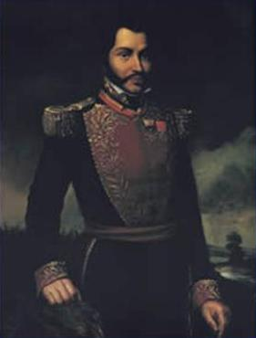 Portrait of venezuelan general José francisco Bermúdez